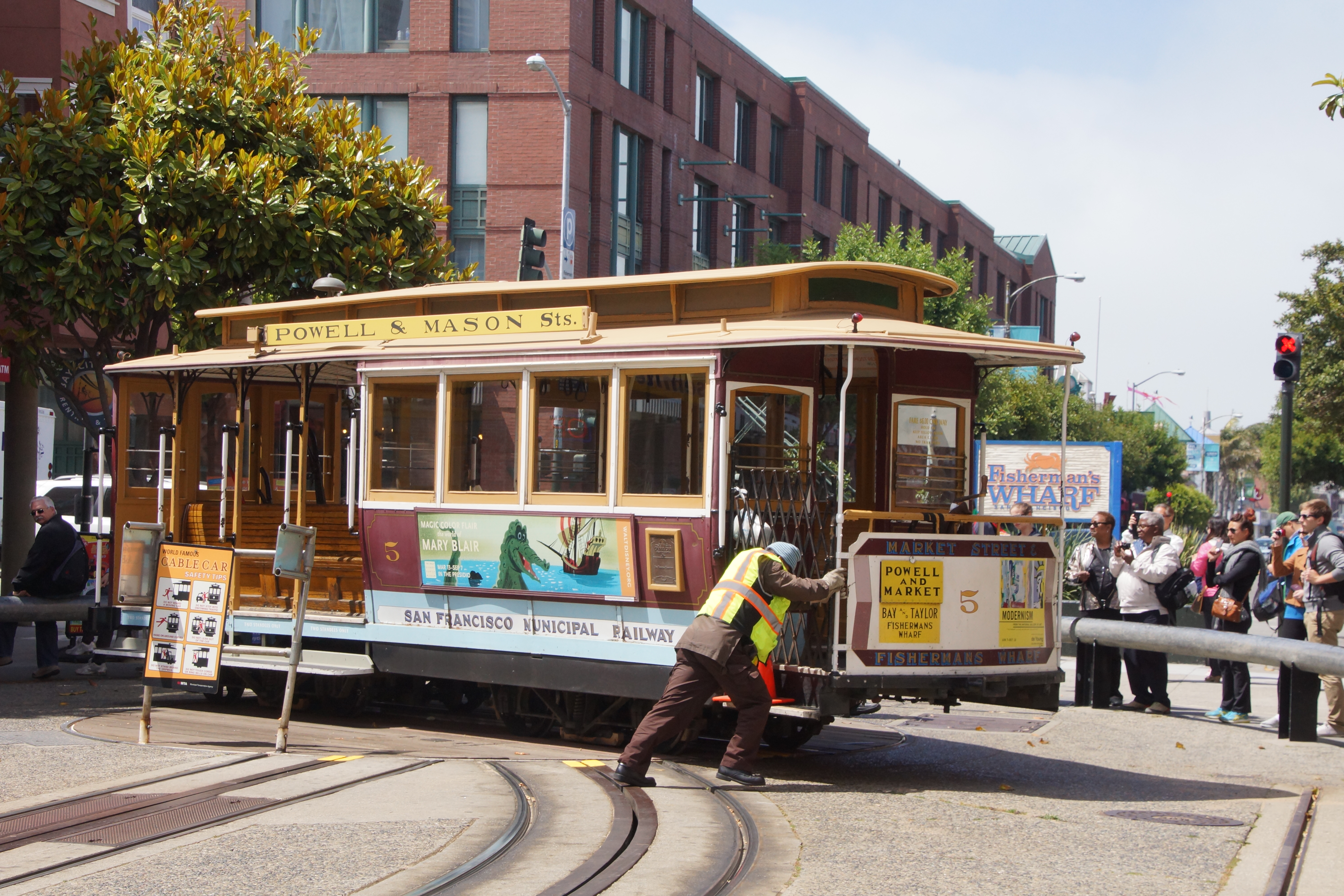 west u.s.a 9 111